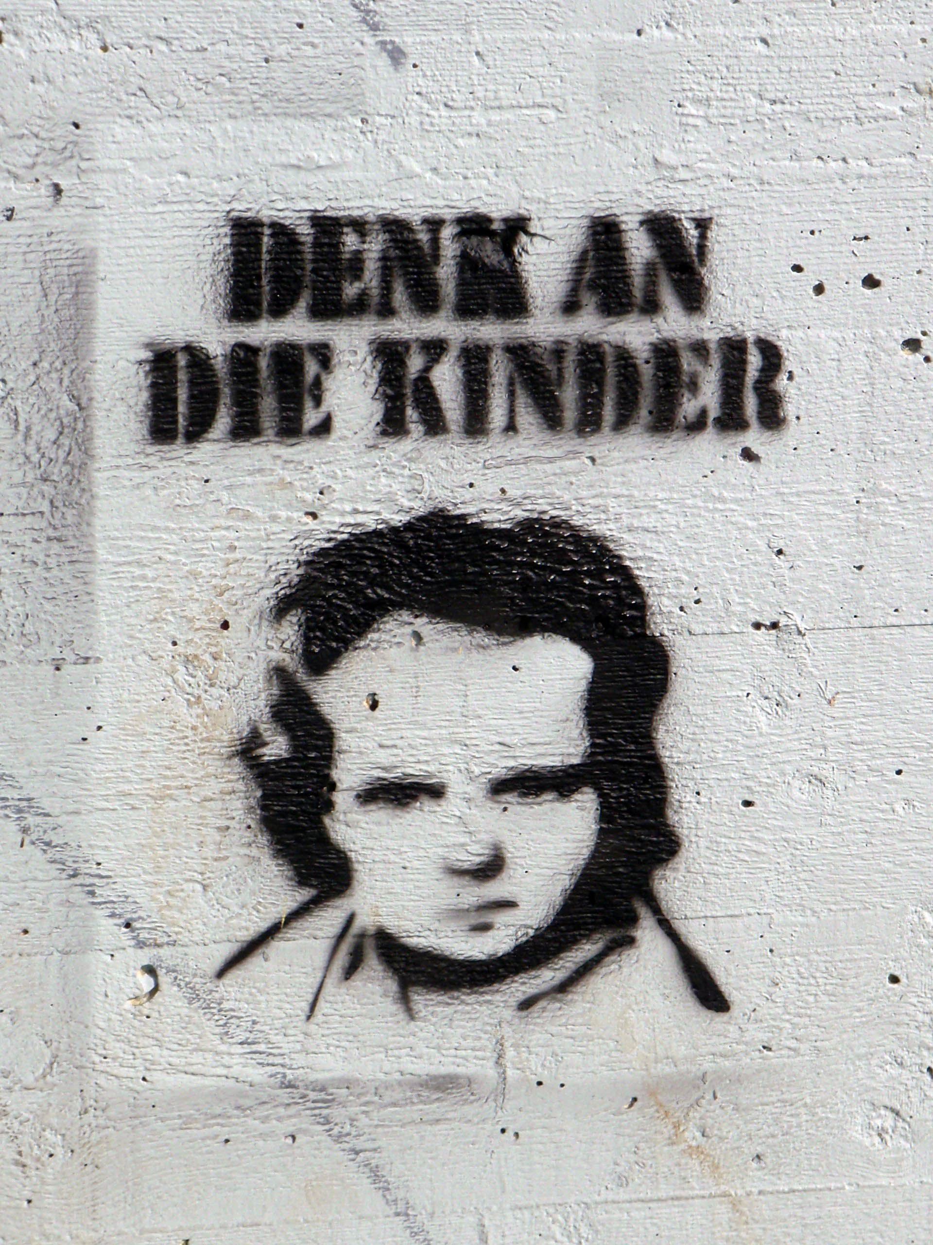 Think of the children Think of the children